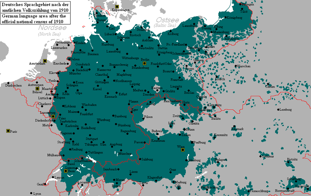 Updated version of file already on commons: File:Verbreitungsgebiet der deutschen Sprache.PNG#mediaviewer/File:Historisches deutsches Sprachgebiet.PNG.